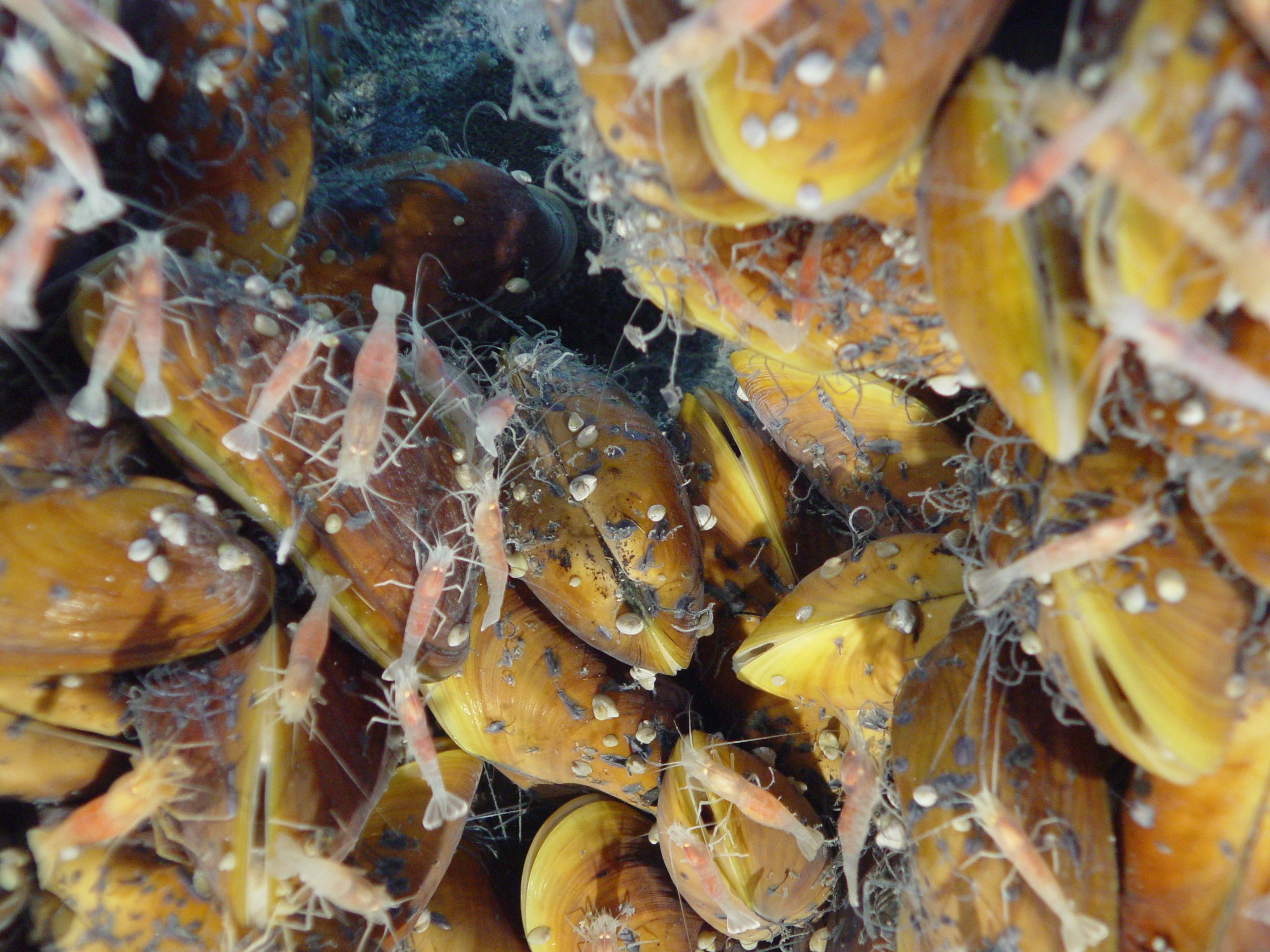 Pacific Ring of Fire Expedition. A dense bed of hydrothermal mussels covers the slope of Northwest Eifuku volcano near a seafloor hot spring called Champagne vent . Other vent animals living among the mussels include shrimp, limpets, and Galatheid crabs. Mariana Arc region, Western Pacific Ocean.